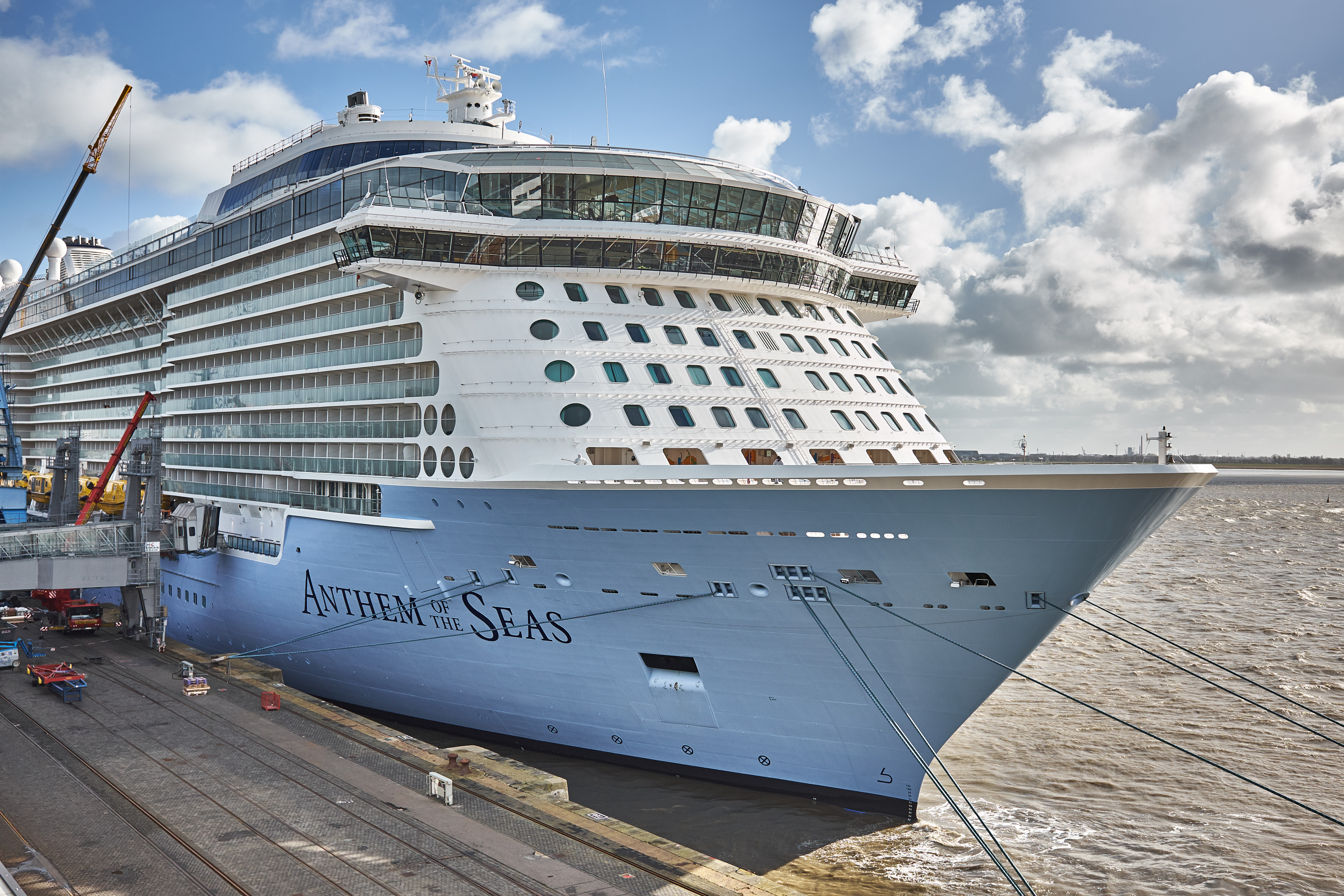 Final preparation of the "Anthem of the Seas" at the Columbuskaje in Bremerhaven